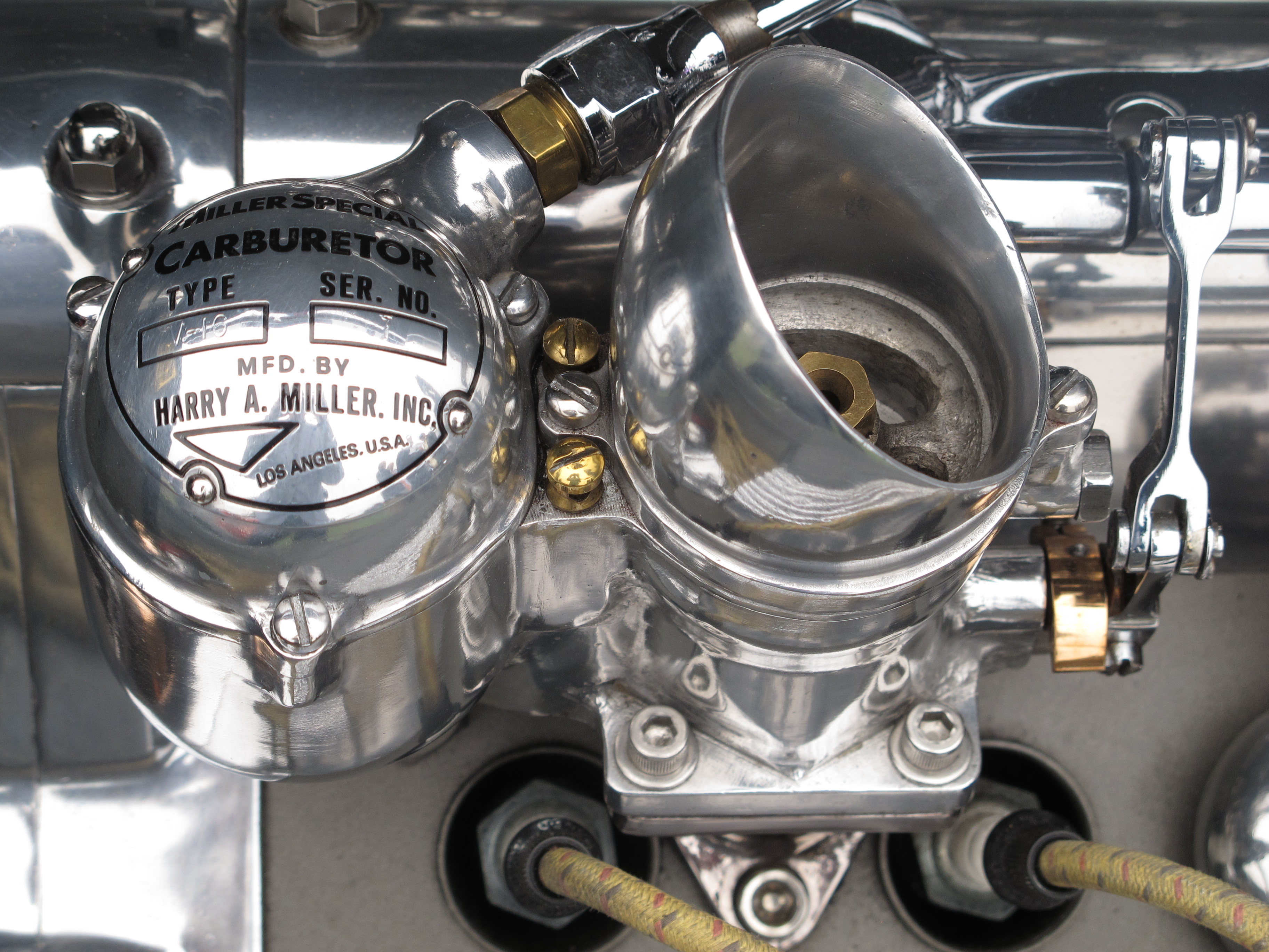 The Miller carburetor was widely used for performance automobiles in the early 20th century